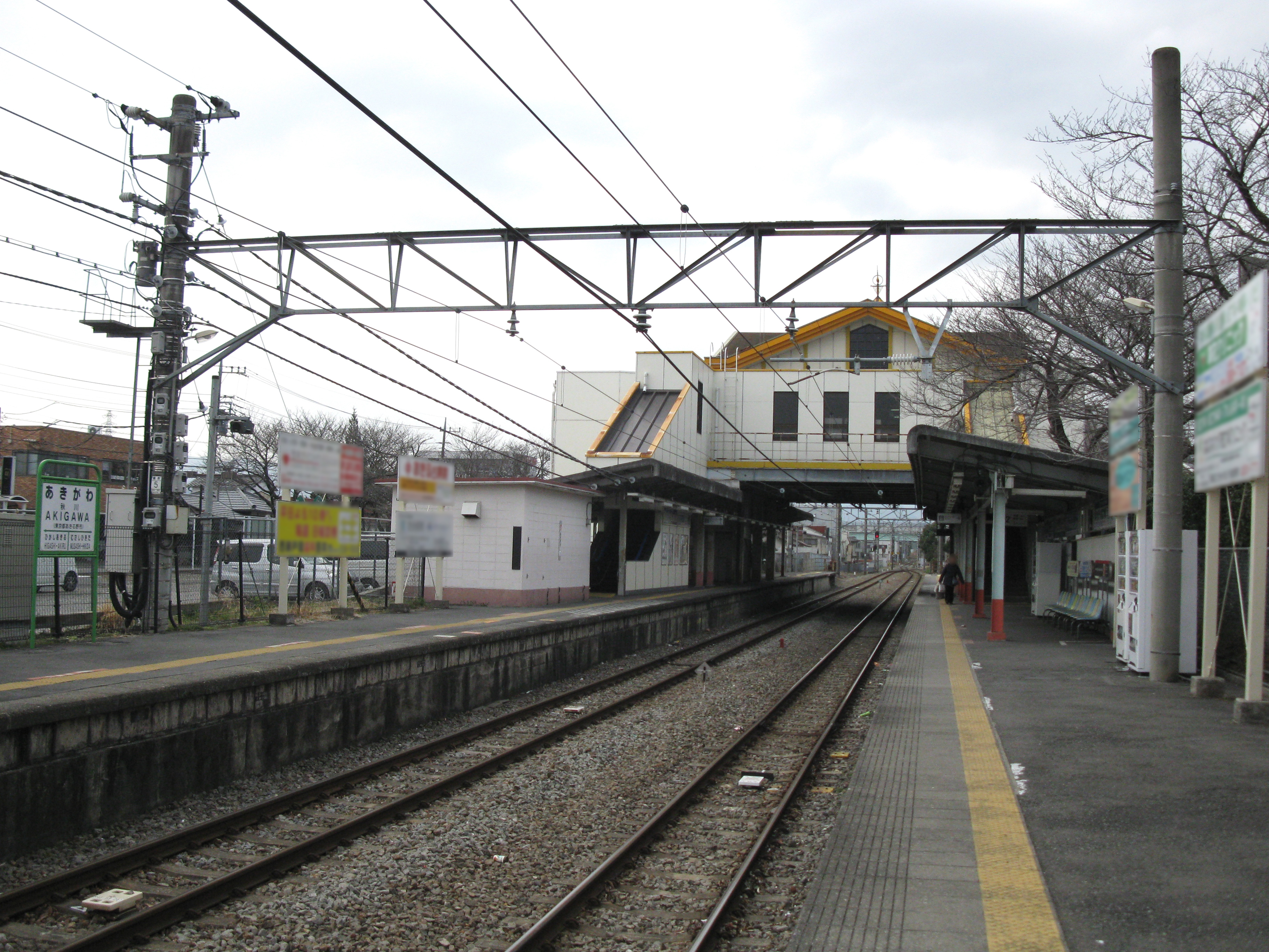 Akigawa Station platform (East Japan Railway Itsukaichi Line)